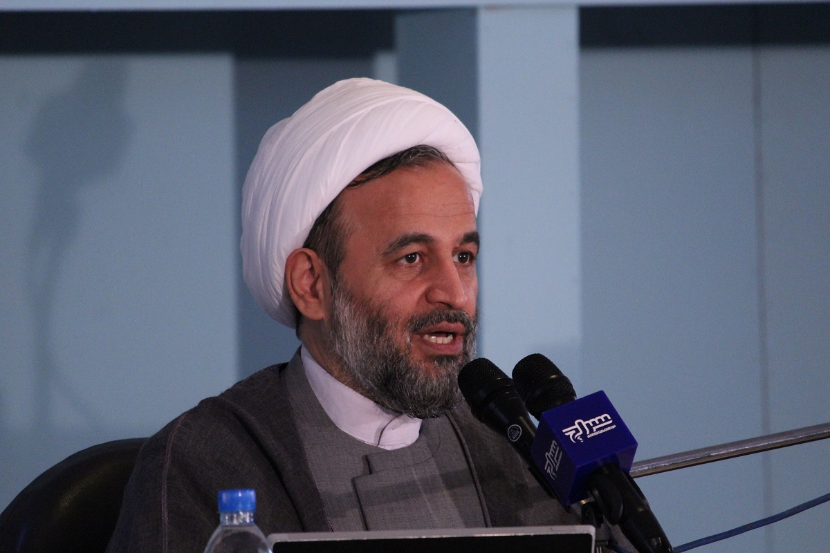 مشهدالرضا میلاد امام رضا علیه السلام Hojjat al-Eslam panahian